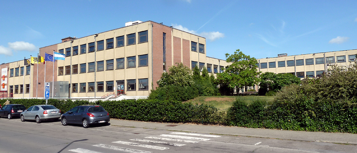 PISO, technical school Tienen